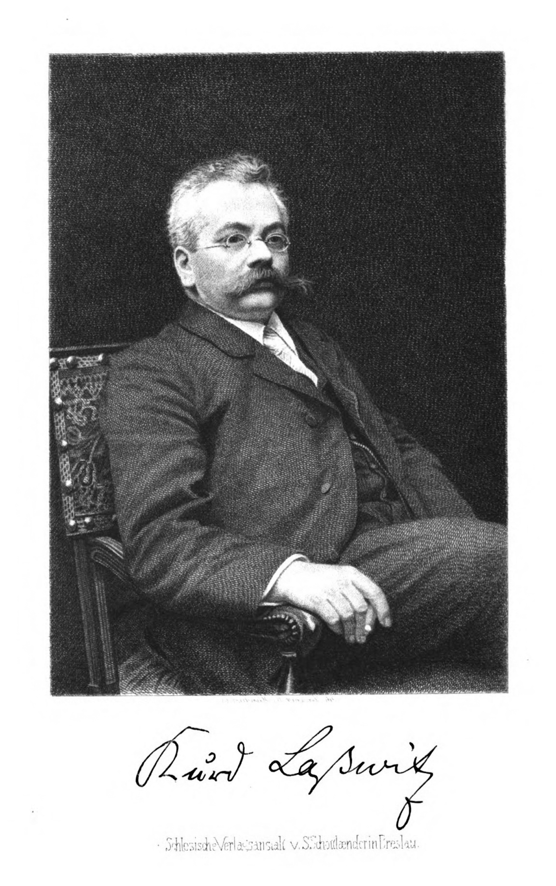 Kurd Laßwitz by Johann Lindner. In: Nord und Süd, September 1903